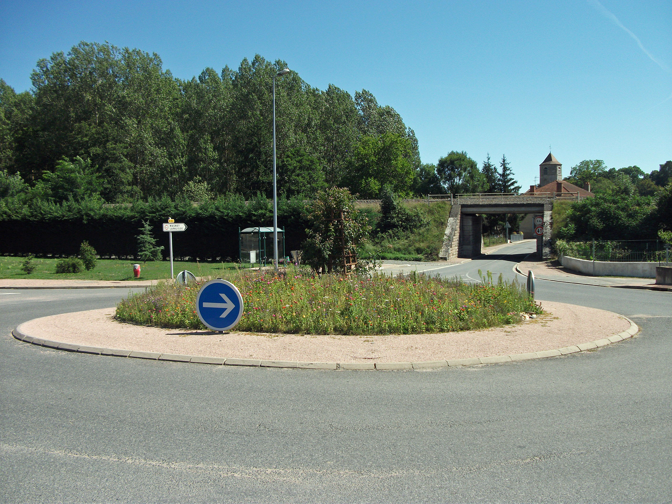 Roundabout in Seuillet [8864]